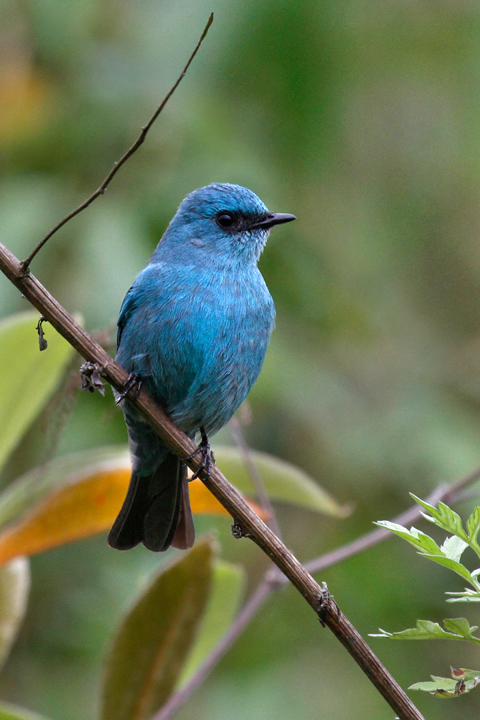 Photograph of Verditer Flycatcher (Male)